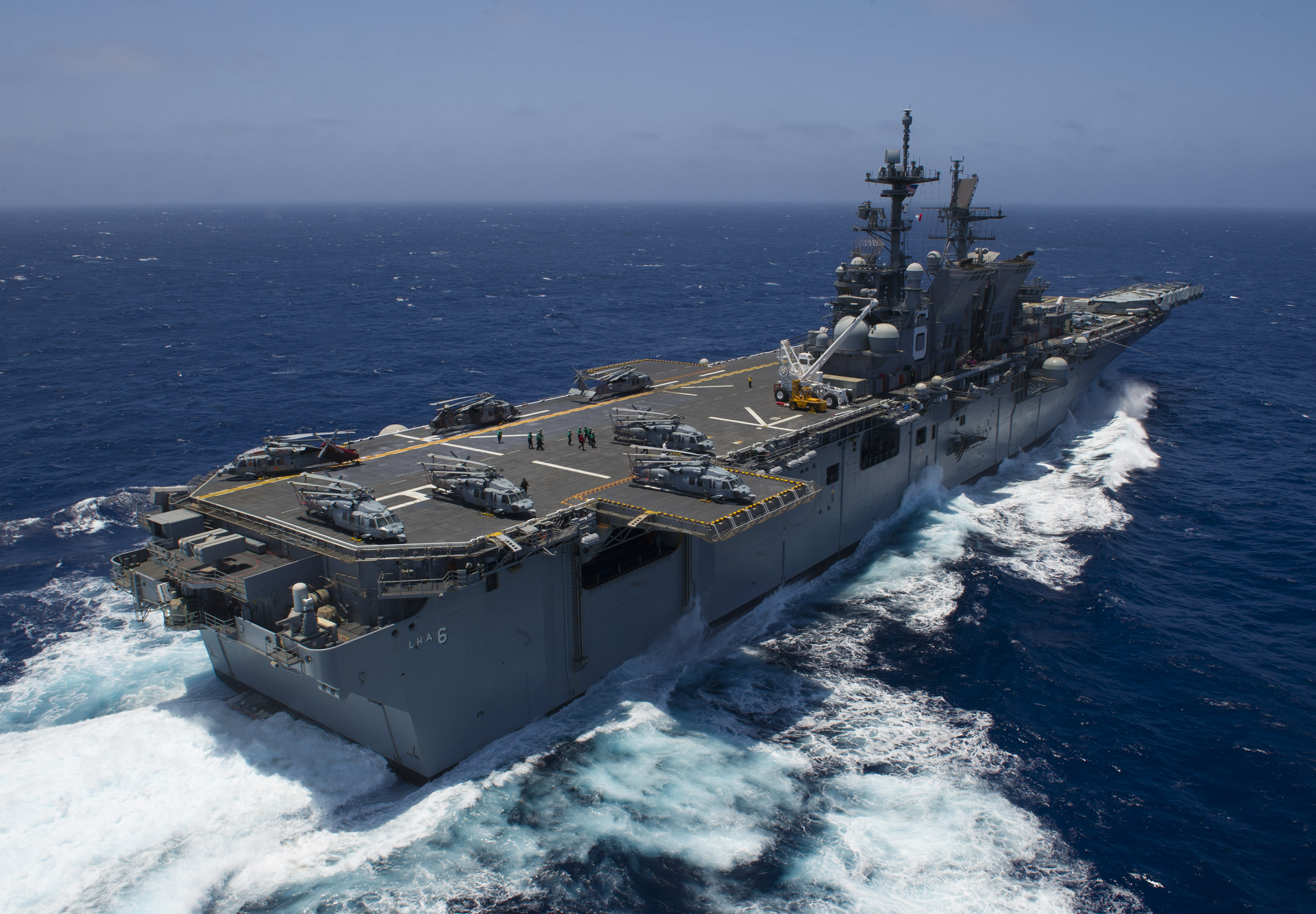 The amphibious assault ship USS America (LHA-6) performs flight operations while underway to Rim of the Pacific 2016. Twenty-six nations, more than 40 ships and submarines, more than 200 aircraft and 25,000 personnel are participating in RIMPAC from June 30 to Aug. 4, in and around the Hawaiian Islands and Southern California. The world's largest international maritime exercise, RIMPAC provides a unique training opportunity that helps participants foster and sustain the cooperative relationships that are critical to ensuring the safety of sea lanes and security on the world's oceans. RIMPAC 2016 is the 25th exercise in the series that began in 1971.